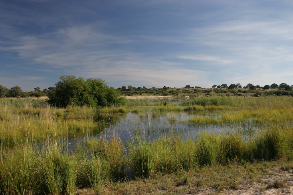 Okavango River east of Rundu near Utokota